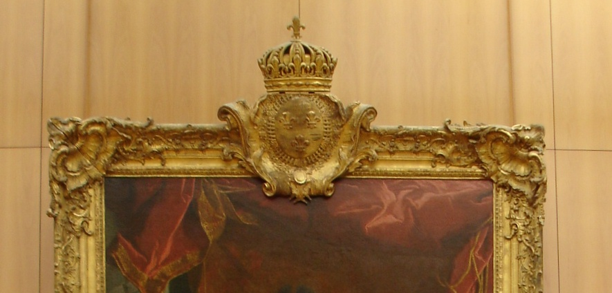 own work